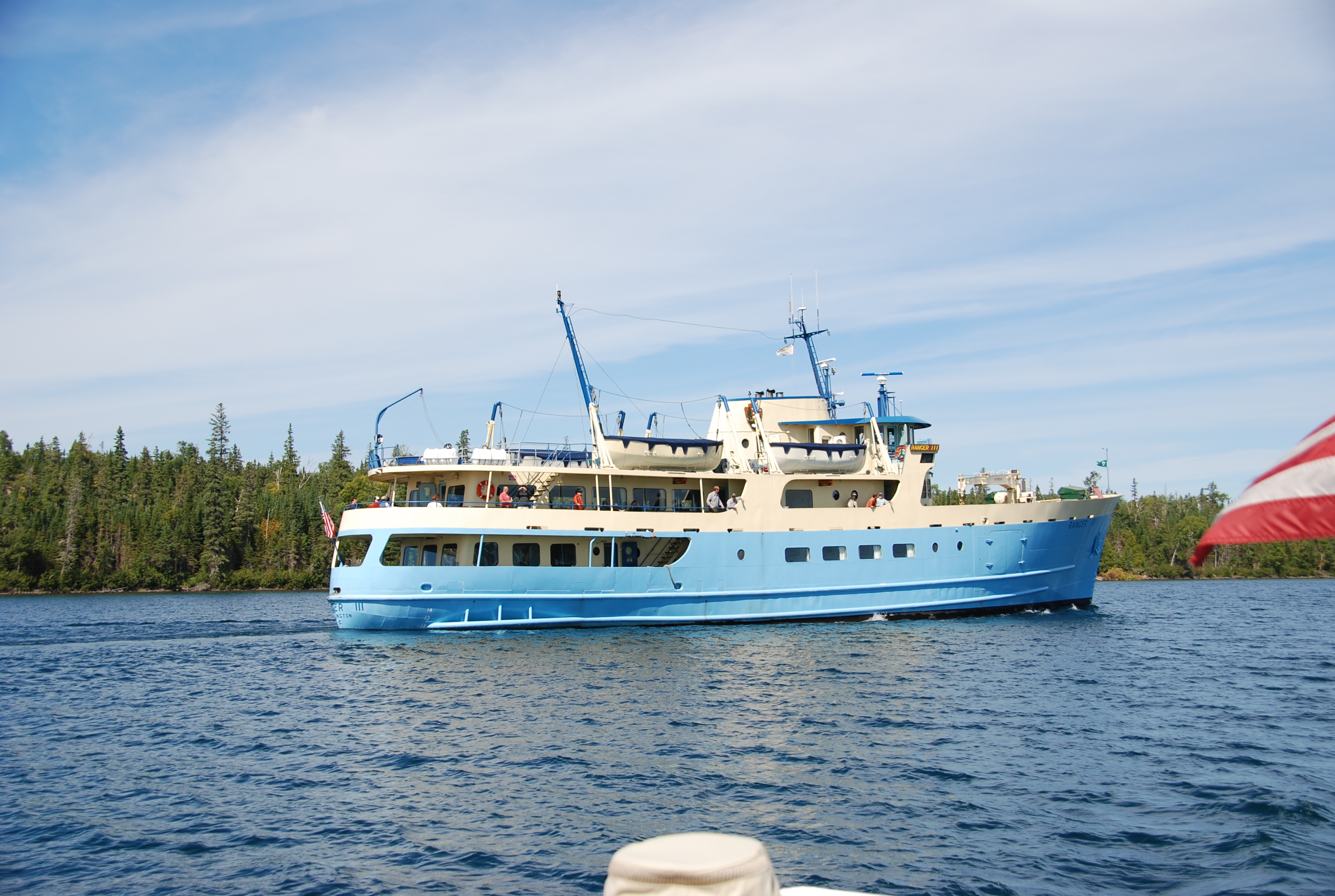 The National Park Service vessel Ranger III has just left the headquarters dock and is heading for Rock Harbor. Scenes of Mott Island, home of the Isle Royale National Park headquarters, as seen from the tour ship Sandy.